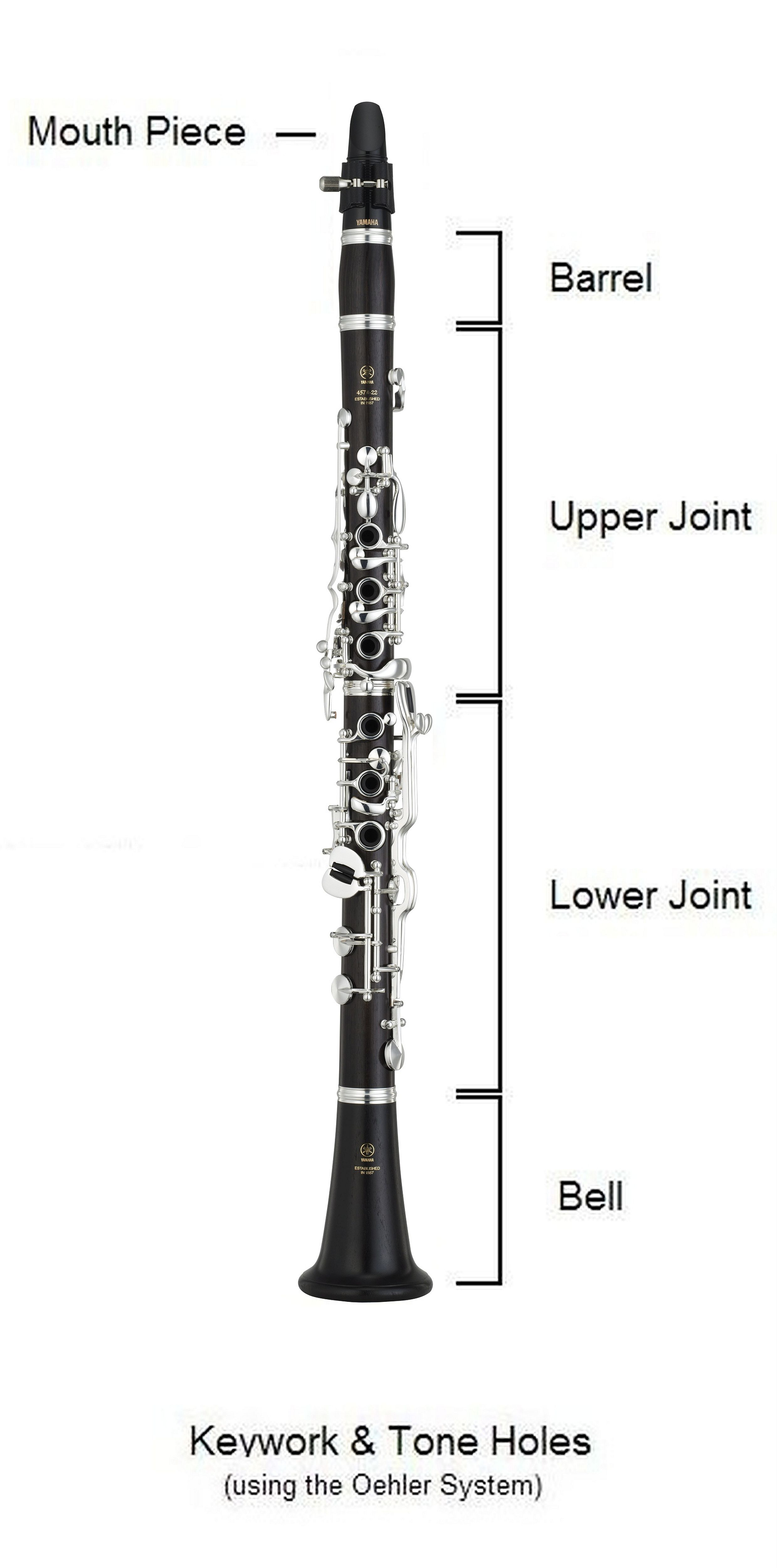 The construction of a clarinet. Edited from this image Image:Clarinets german.jpg